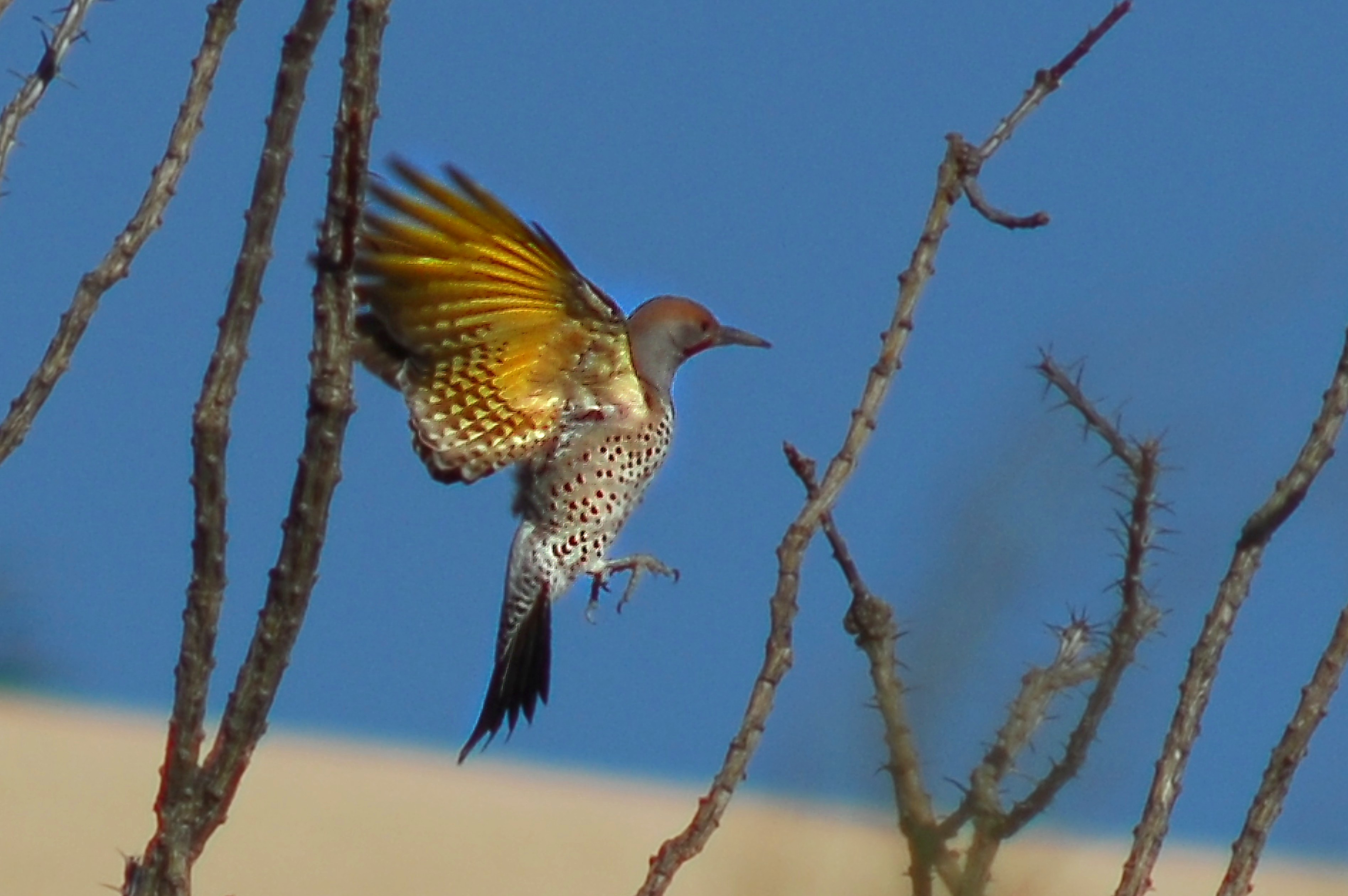 Gilded Flicker (Colaptes chrysoides) in flight, Arizona. Nikon D200 - AI Nikkor 300mm 1:4.5 + TC-14B Teleconverter - 1/1000 sec - f/8 - ISO 110